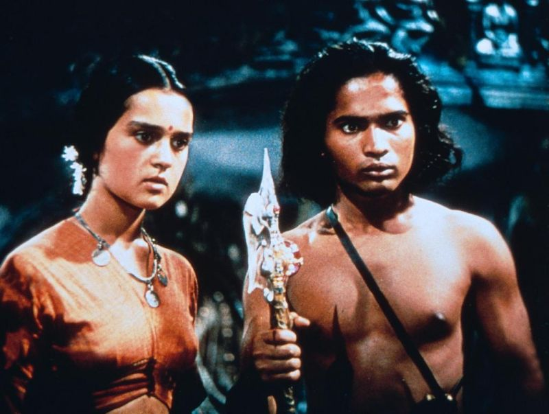 Patricia O'Rourke & Sabu in Jungle Book (cropped screenshot)